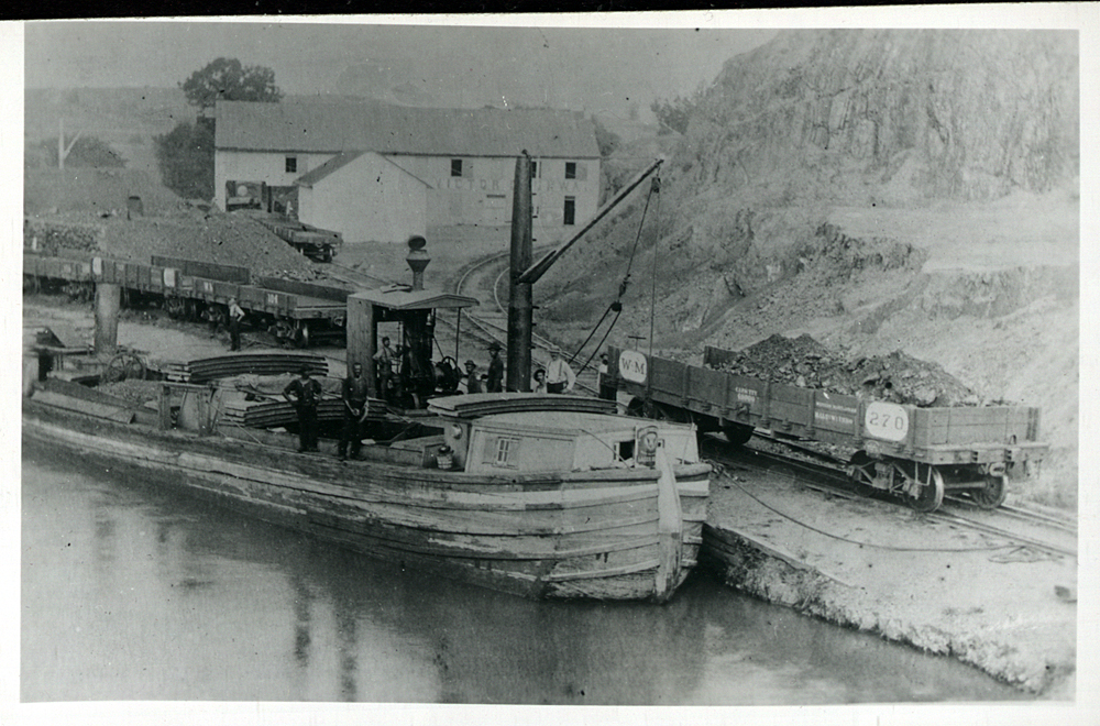 Steamboat on Chesapeake and Ohio Canal near Williamsport, Maryland. The panels of the cargo holds are seen stacked up and coal can be seen still in the rear hold. Coal is being loaded onto a Western Maryland railcar. There is also a steam engine powering the stiff legged derrick to lift the coal from the boat into the waiting coal car.